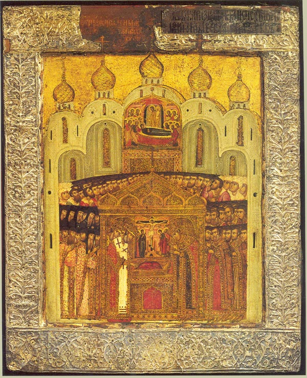 Deposition of the Robe of the Lord, Russian icon with riza (Uspensky cathedral, Moscow Kremilin)